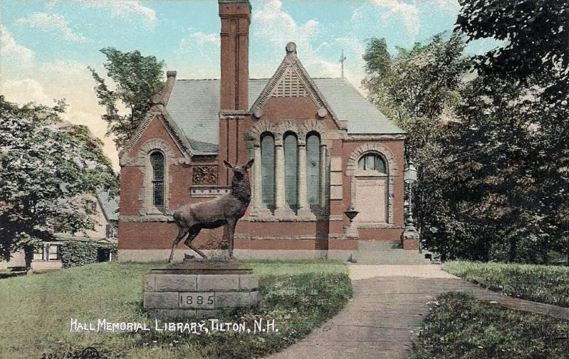 Hall Memorial Library, Northfield, New Hampshire. It was erected in 1885-1886 to serve the towns of Northfield and Tilton. The building's design is attributed to the architectural firm of Wait & Cutter, Boston, Massachusetts.